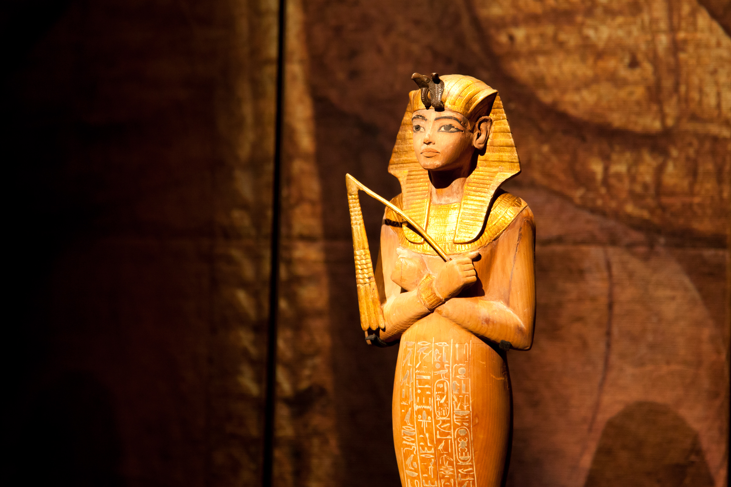 This is a partly gilded wooden ushabti found in the KV62 tomb of king Tutankhamun, from the 18th Dynasty of Egypt's New Kingdom who reigned in the late 14th century BCE. From, the King Tut Exhibit at Seattle's Pacific Science Center